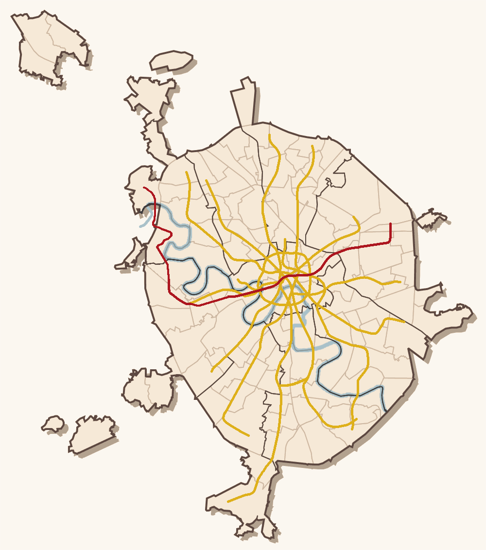 Map of Arbatsko-Pokrovskaya Line of Moscow Metro on Moscow map